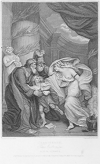 Titus Andronicus: Act IV, Scene 1: Child alarmed at his aunt Lavinia